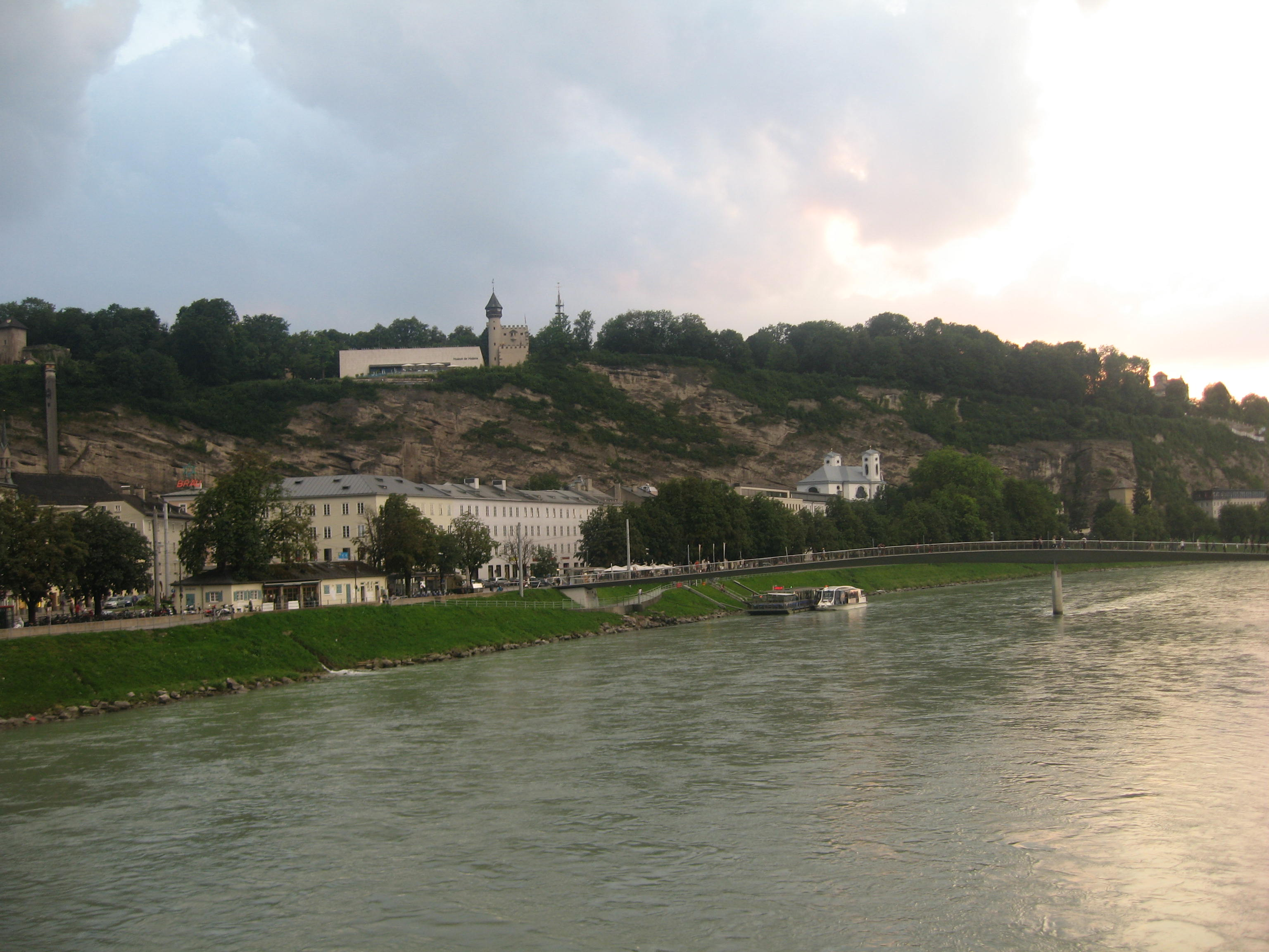 Mönchsberg Salzburg